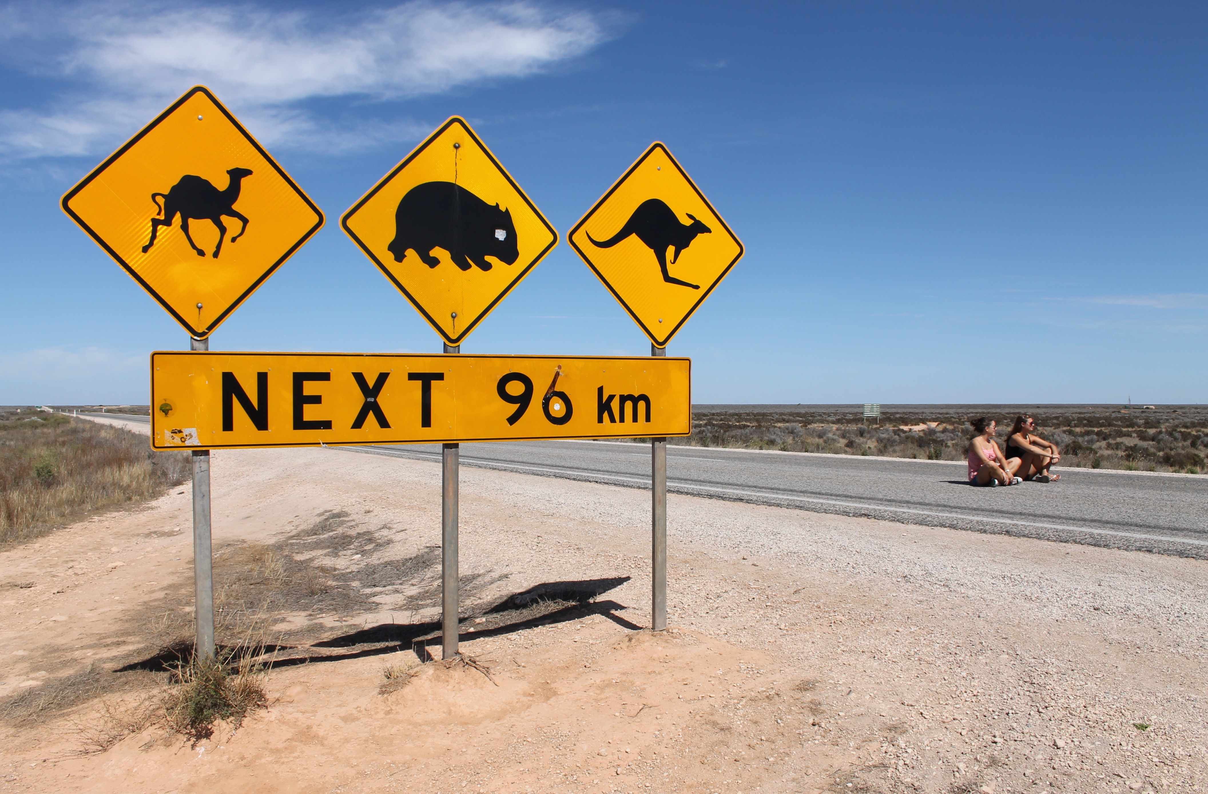 A set of road signs just west of the Nullarbor Roadhouse, South Australia, warning of camels, wombats and kangaroos crossing the Eyre Highway for the next 96 km in a westerly direction. A couple of visitors to Australia, Hannah and Toni, are sitting on the highway at right.